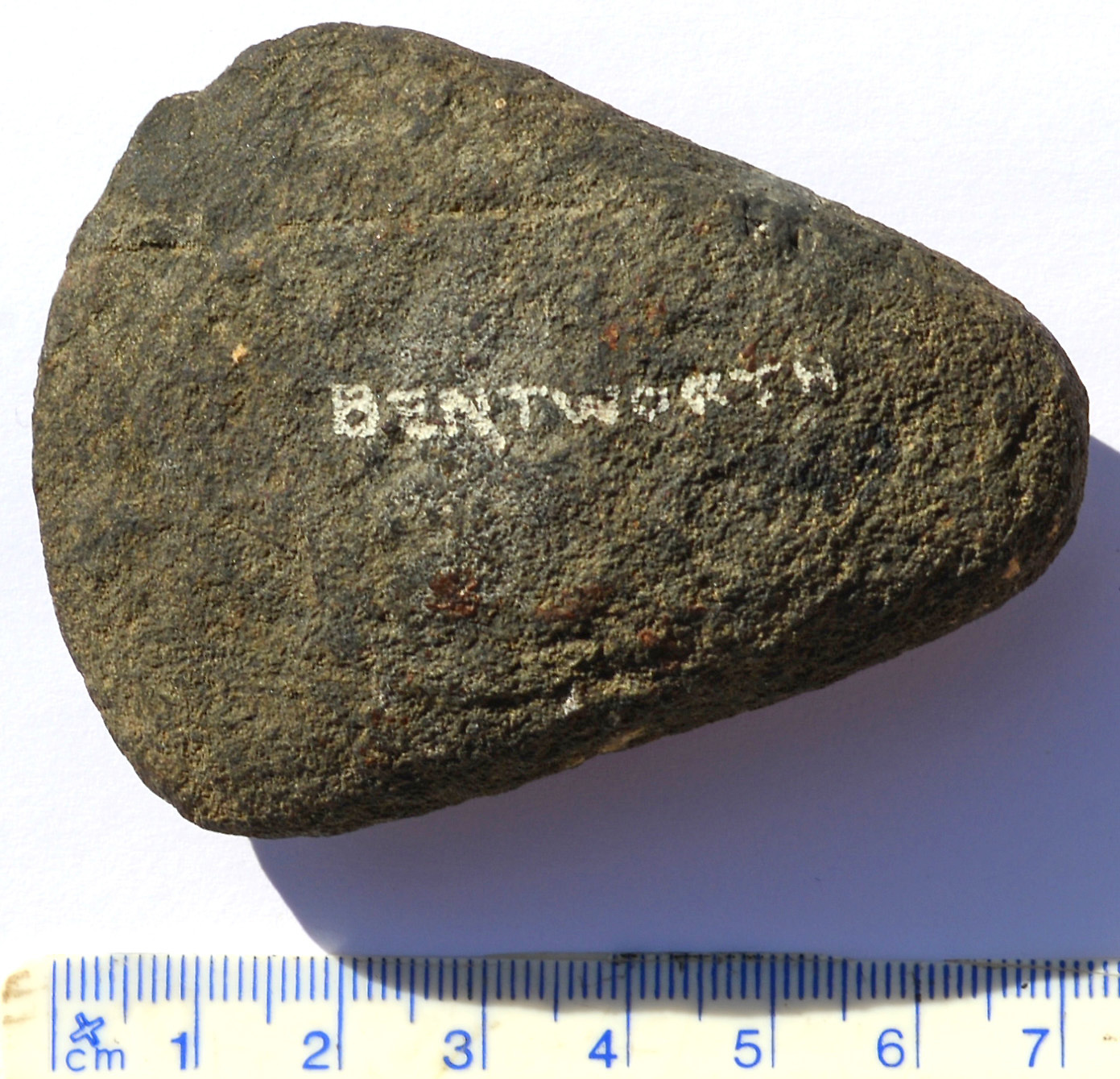 Found in 1935 and given by Mrs H Ward, Ivy Cottage, Bentworth, October 1935 to the Curtis museum Alton. In October 2015 stored by Hampshire Cultural Trust at Chilcomb House. HMCMS ACM 1935.118 SU 66 40